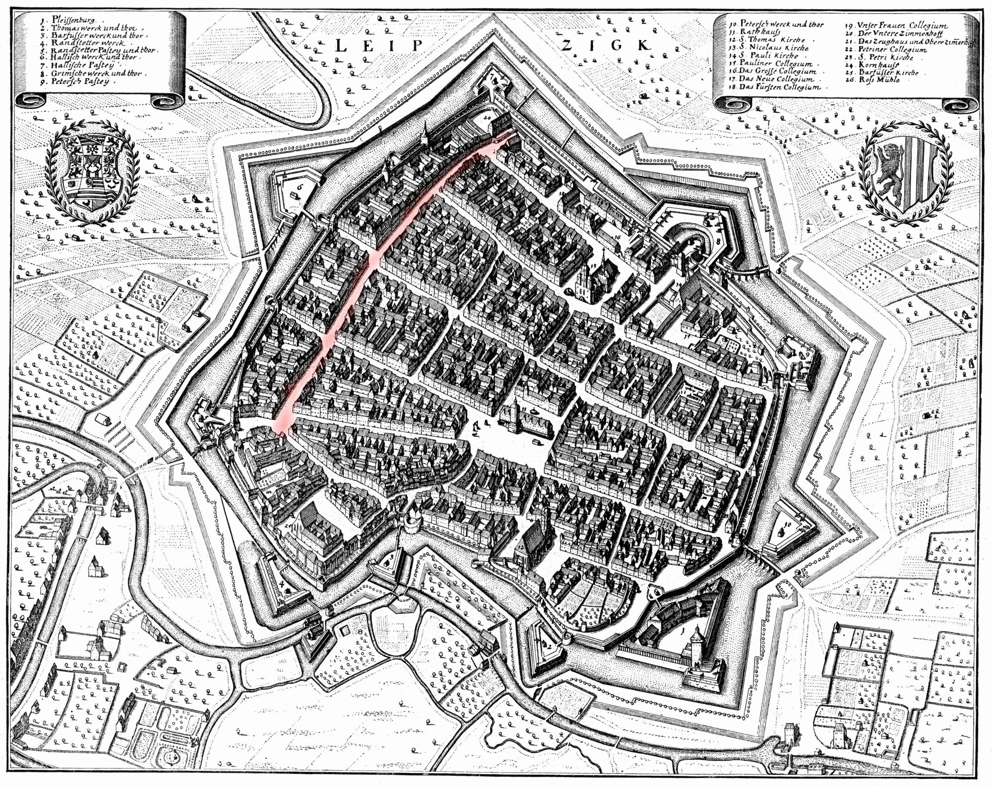 The Brühl in a view of Leipzig in 1650